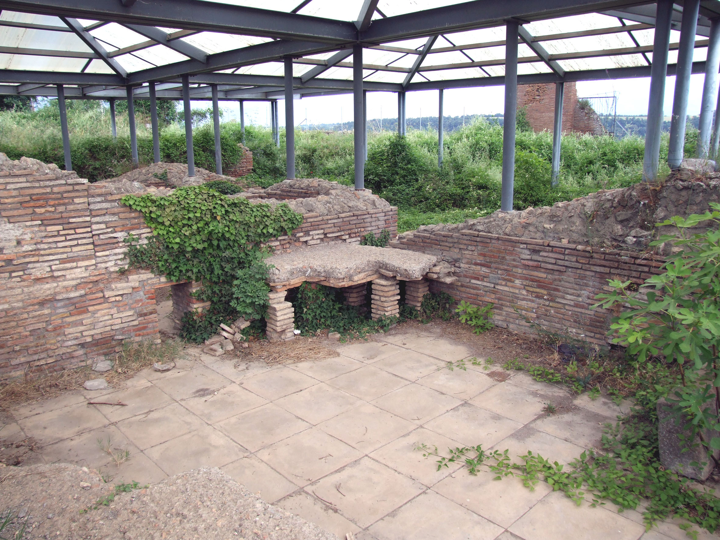 Thermae of Ferentium, Province of Viterbo, Italy